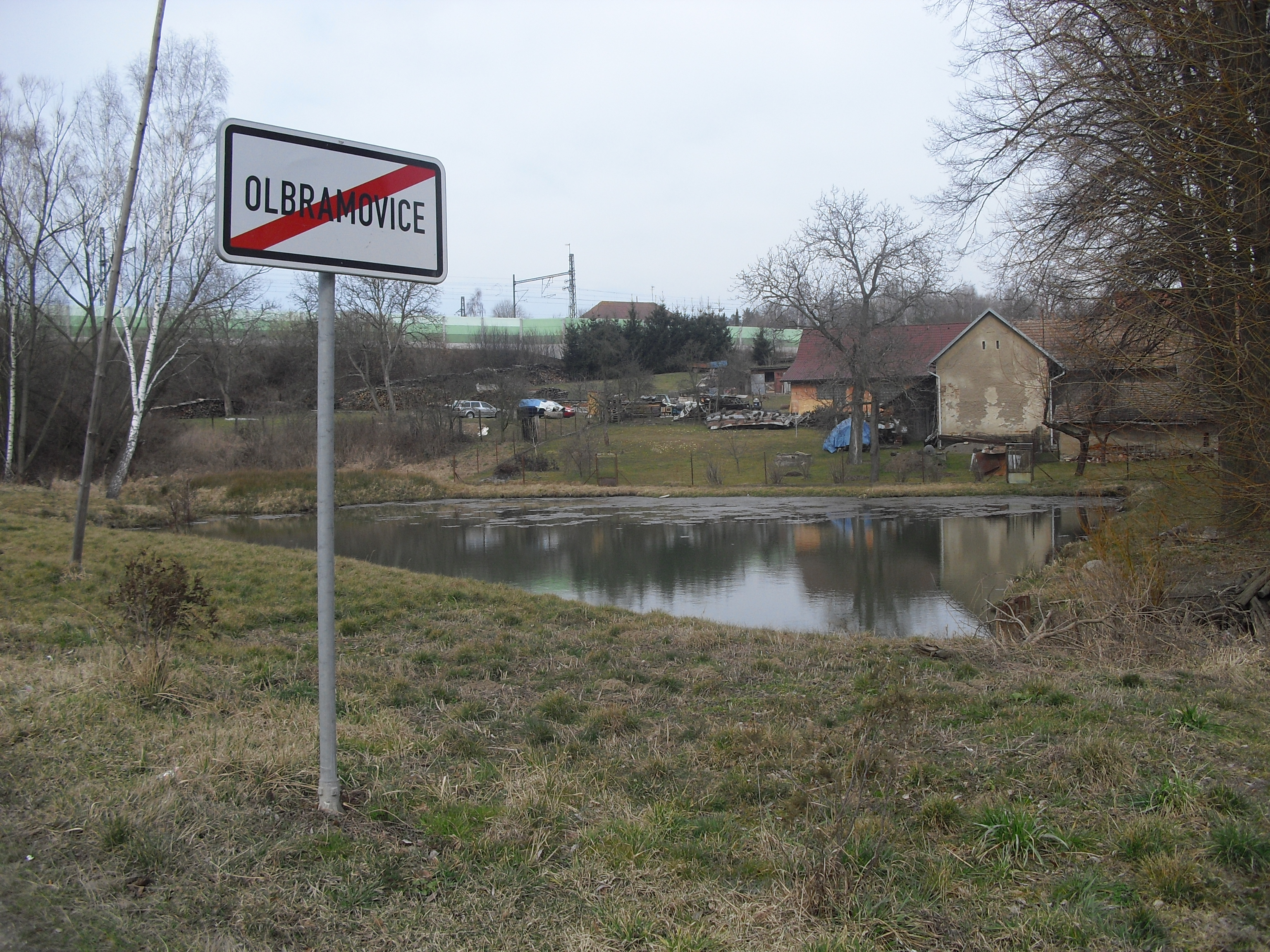 Olbramovice, Benešov District, Czech Republic, part Veselka.